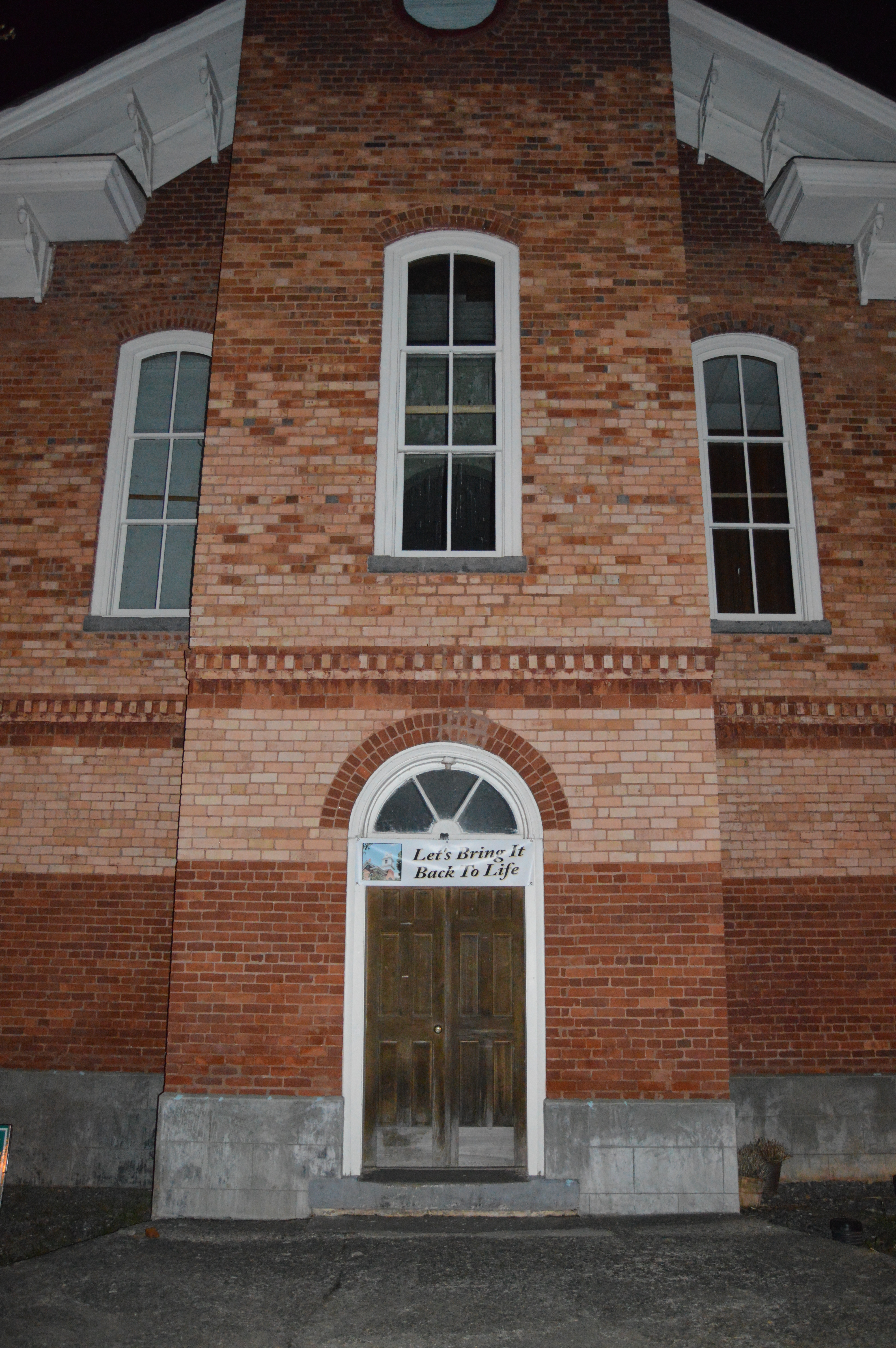 Entrance to the Clay County Courthouse, located on Courthouse Square in central Hayesville, North Carolina, United States. Built in 1887, it is listed on the National Register of Historic Places.